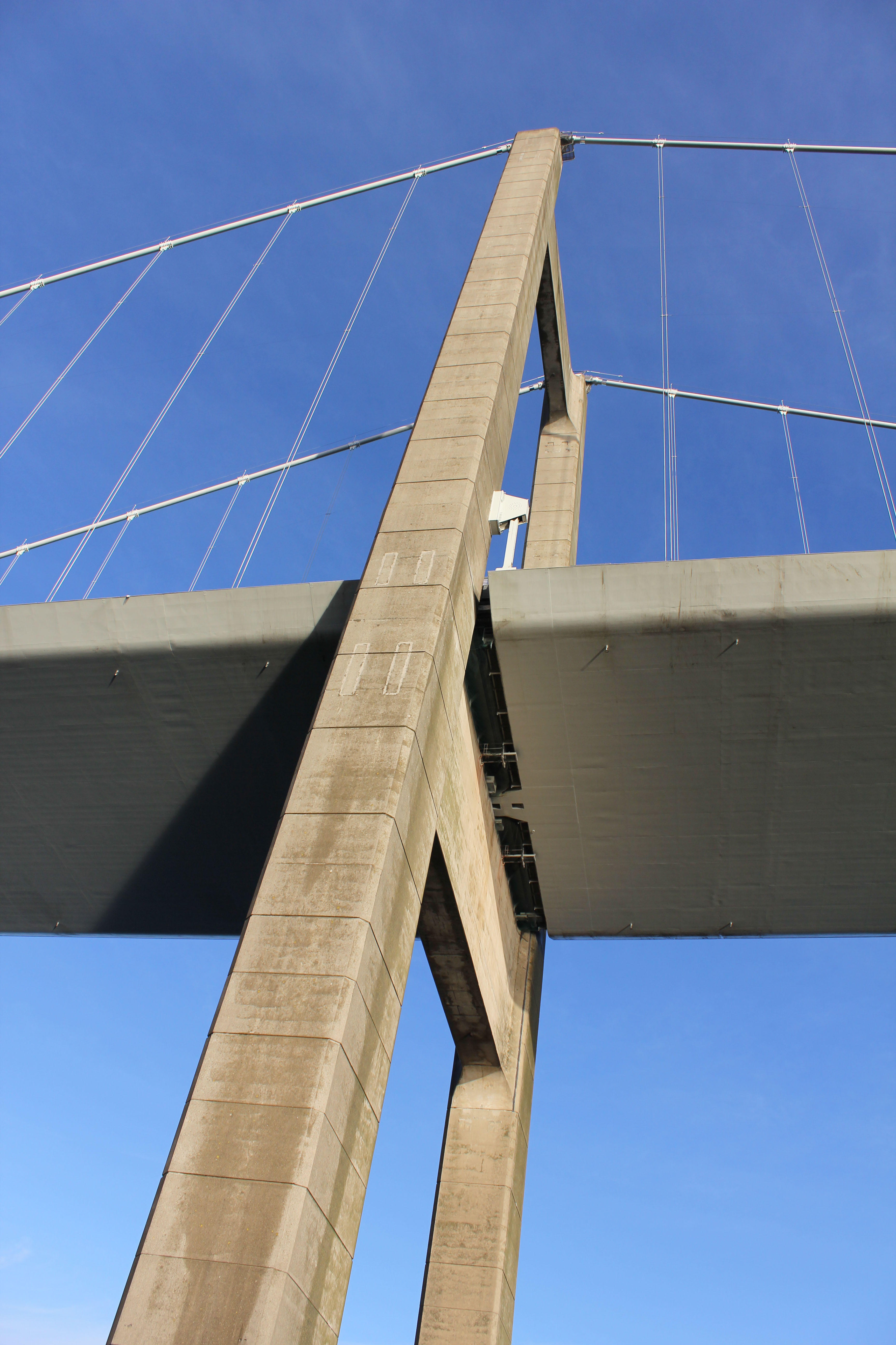 The New Little Belt Bridge (Nye Lillebæltsbro) west pylon. Fhoto from south. 2011.